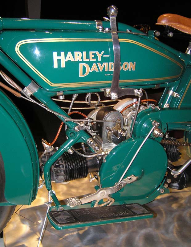 1919 Harley-Davidson Model W Sport Twin - The Art of the Motorcycle - Memphis. 36 cu-in, bore x stroke 2-3/4 x 3 in. Power: 6 hp. Top speed: 50 mph (80 km/h). The Otis Chandler Museum of Transportation and Wildlife, Oxhard, California.